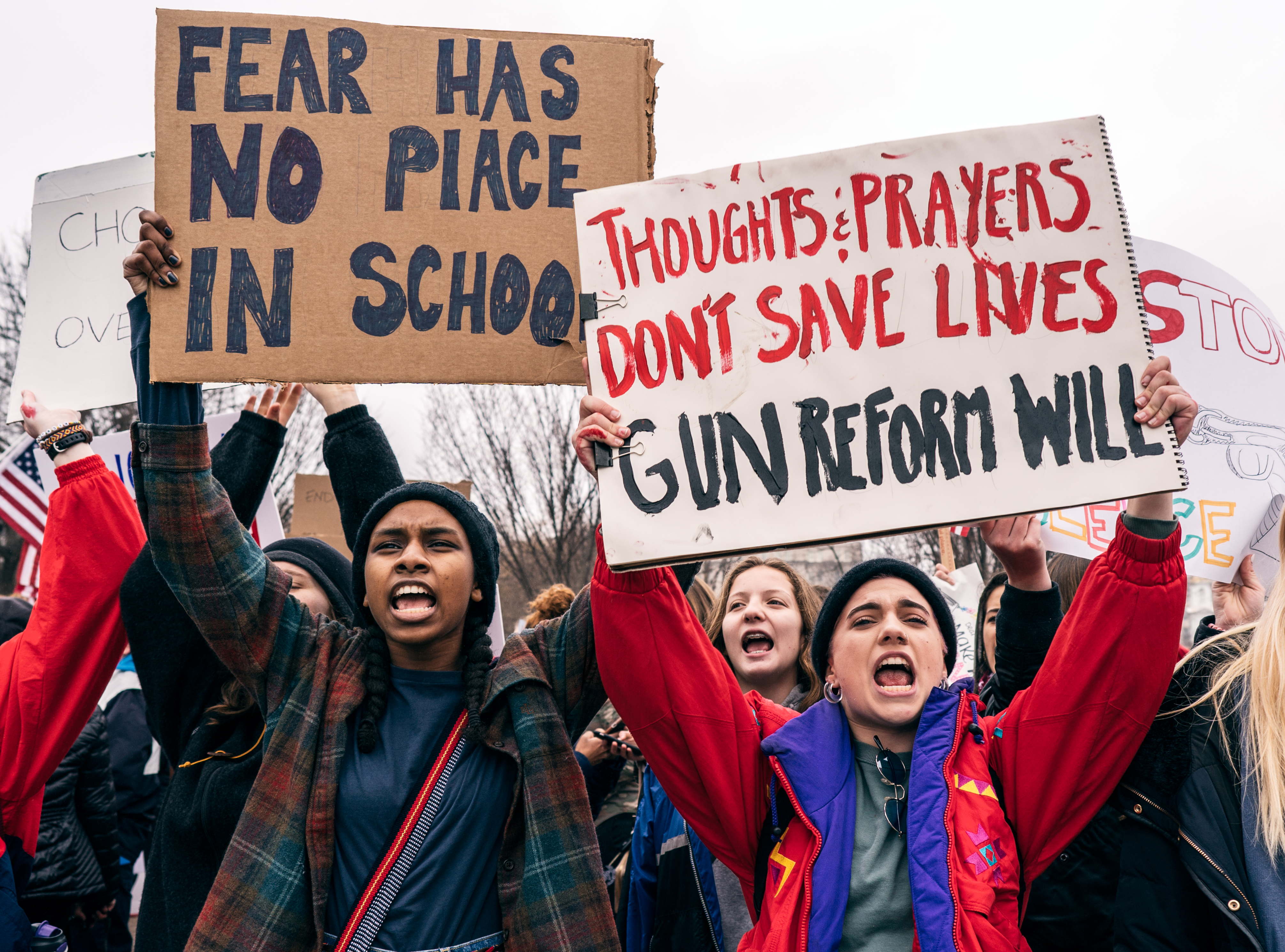 The demonstration was organized by Teens For Gun Reform, an organization created by students in the Washington DC area, in the wake ofthe February 14 shooting at Marjory Stoneman Douglas High School in Parkland, Florida.